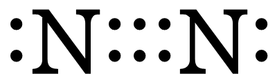 Lewis structure of Nitrogen molecule.